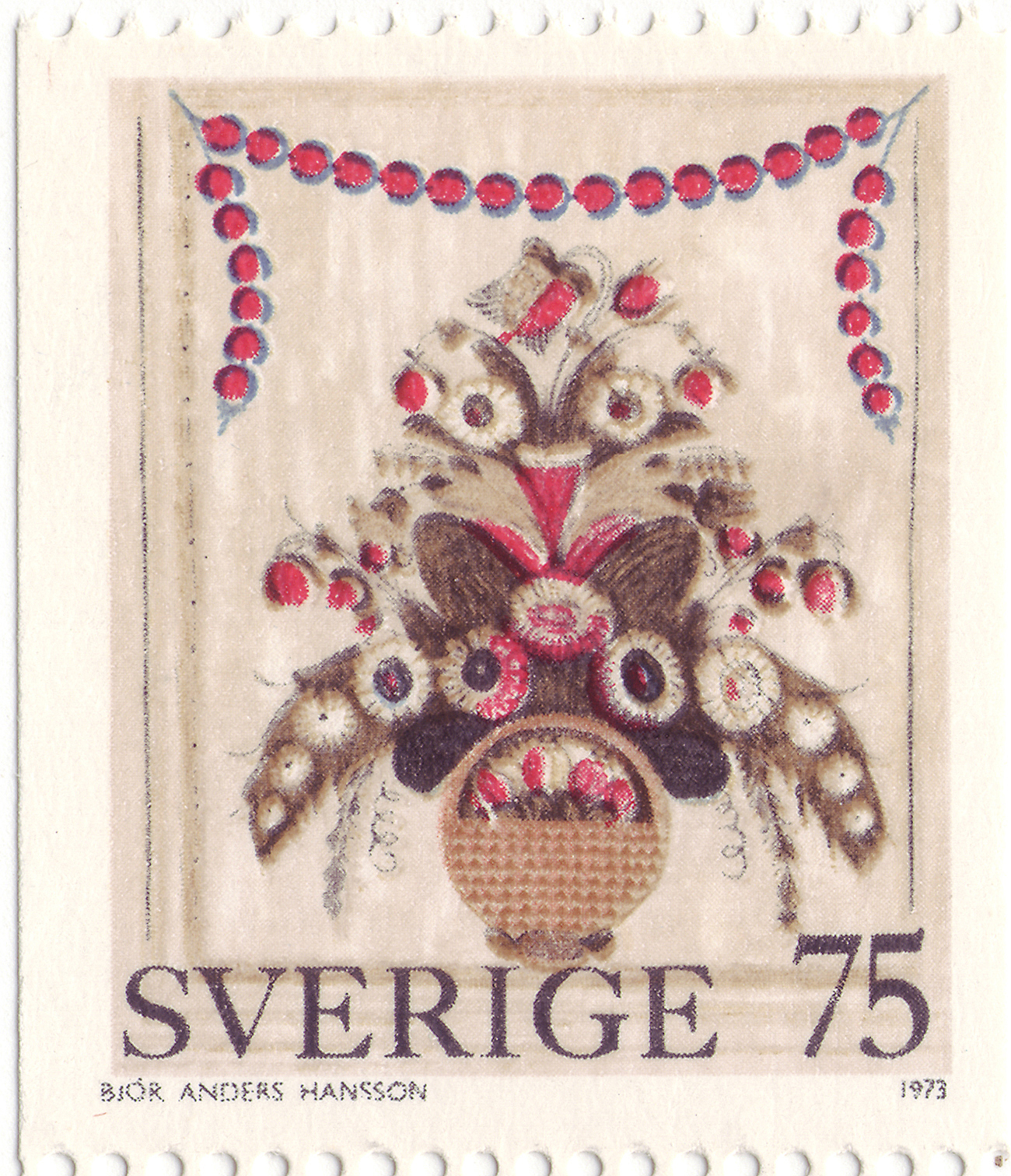 Swedish stamp, one stamp in a collection of four with "Dalecarlian wallpaintings" as motiv, released Christmas 1973.